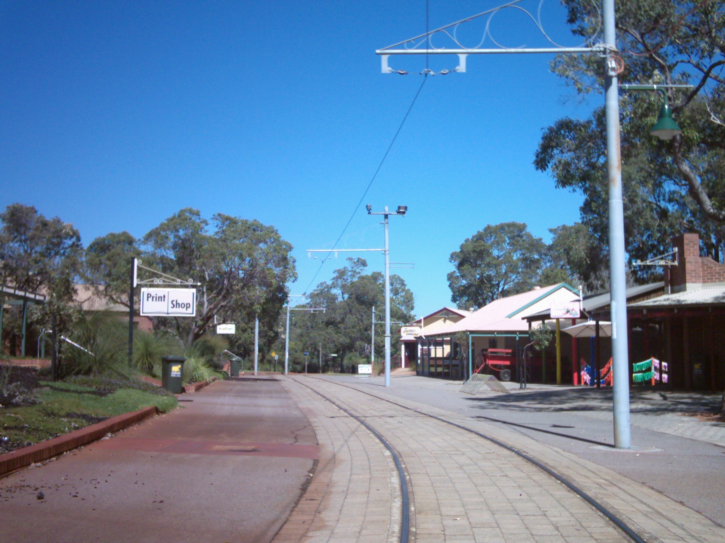 Centre of village at Whiteman Park, tram line through road way